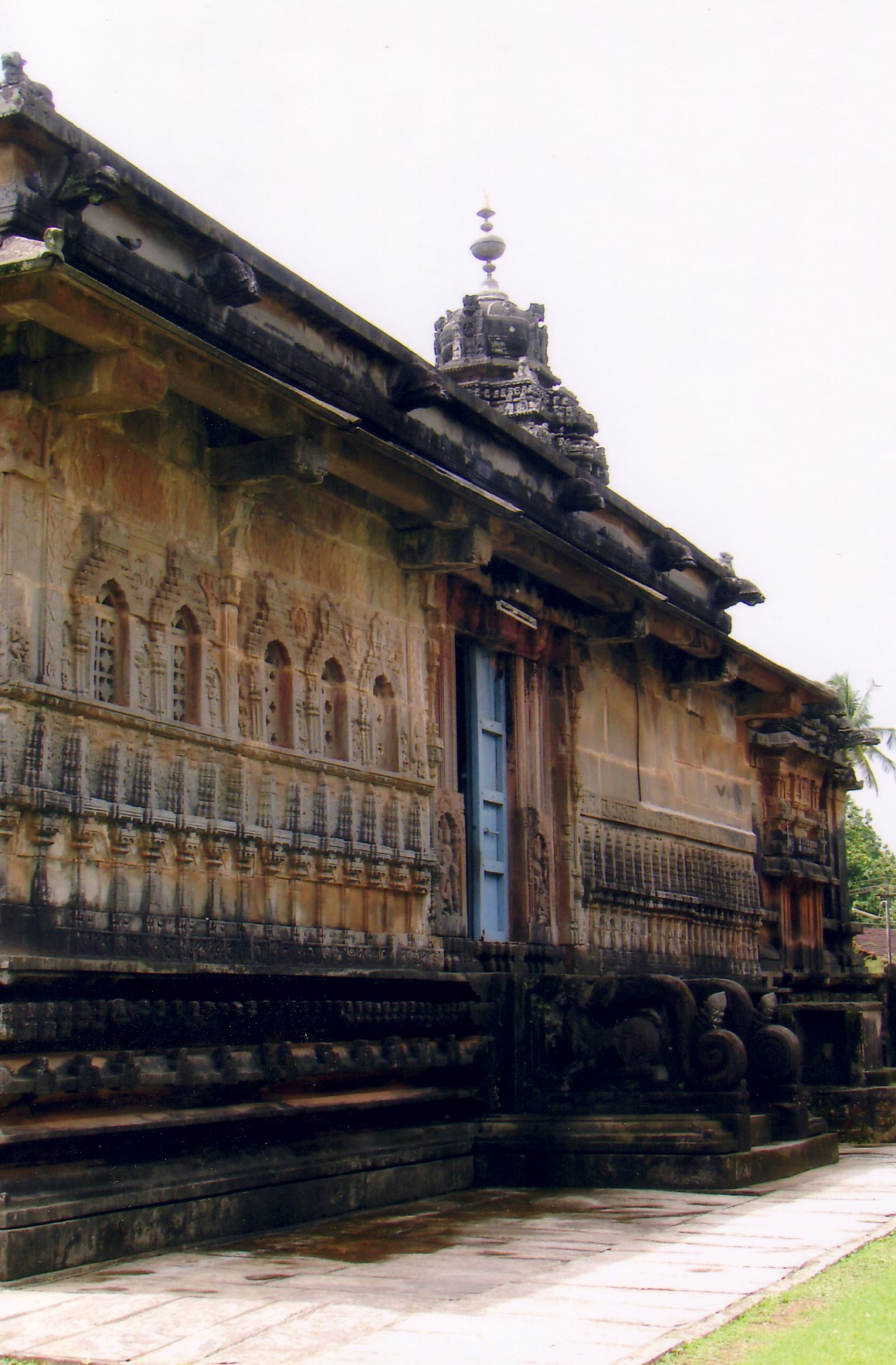 Photographed by self (Dinesh Kannambadi) in Ikkeri at the Aghoreshwara temple (also spelt Aghoreshvara), Shivamogga district, Karnataka, India